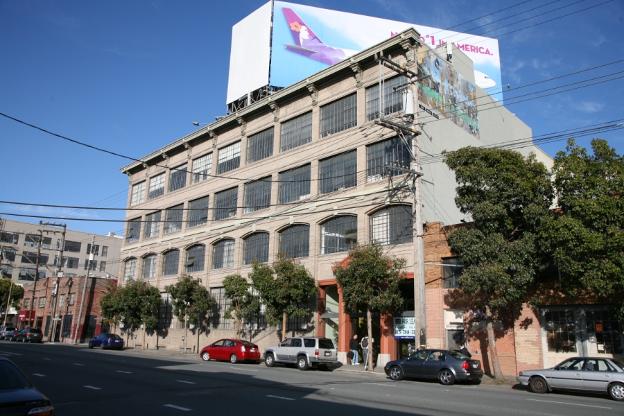 Twitter HQ is on the 4th floor of this not very spectacular building.